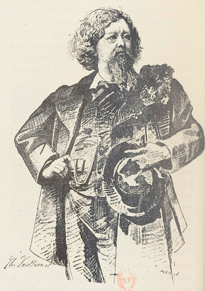 Selfportrait of Voillemot, sketch.